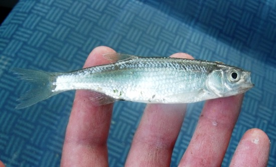 Alburnus arborella sampled in a Grosseto province stream (Tuscany, central Italy). Released after photo.